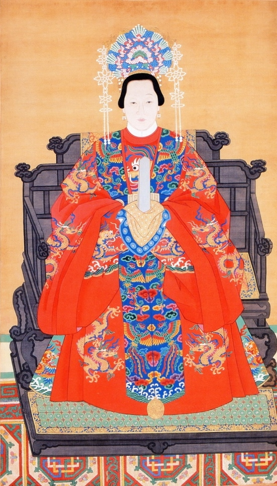 Princess of ming dynasity